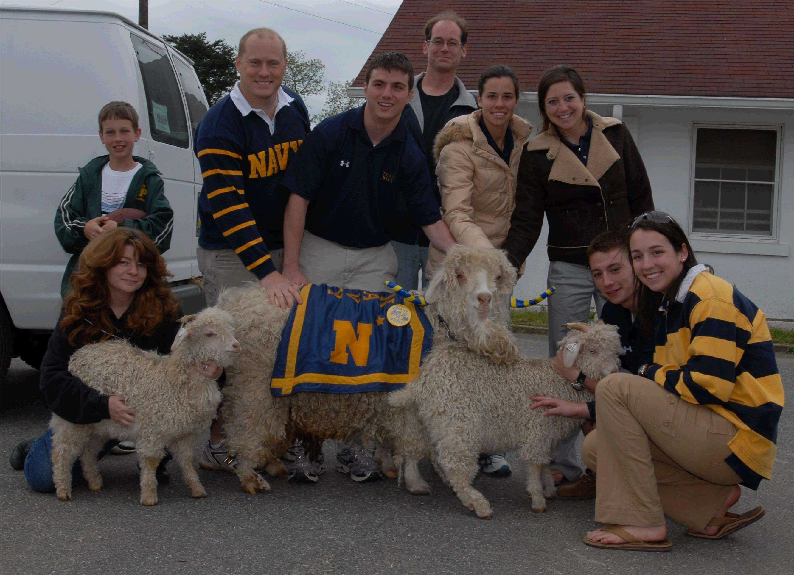 Picture of Team Bill the day they received the two new Bill Goats.